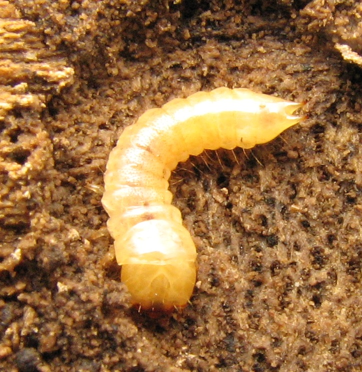 Bark beetle, Synchroa punctata, larva under bark. Size: +/- 12 mm. Pennypack Restoration Trust, Montgomery County, Pennsylvania, USA.